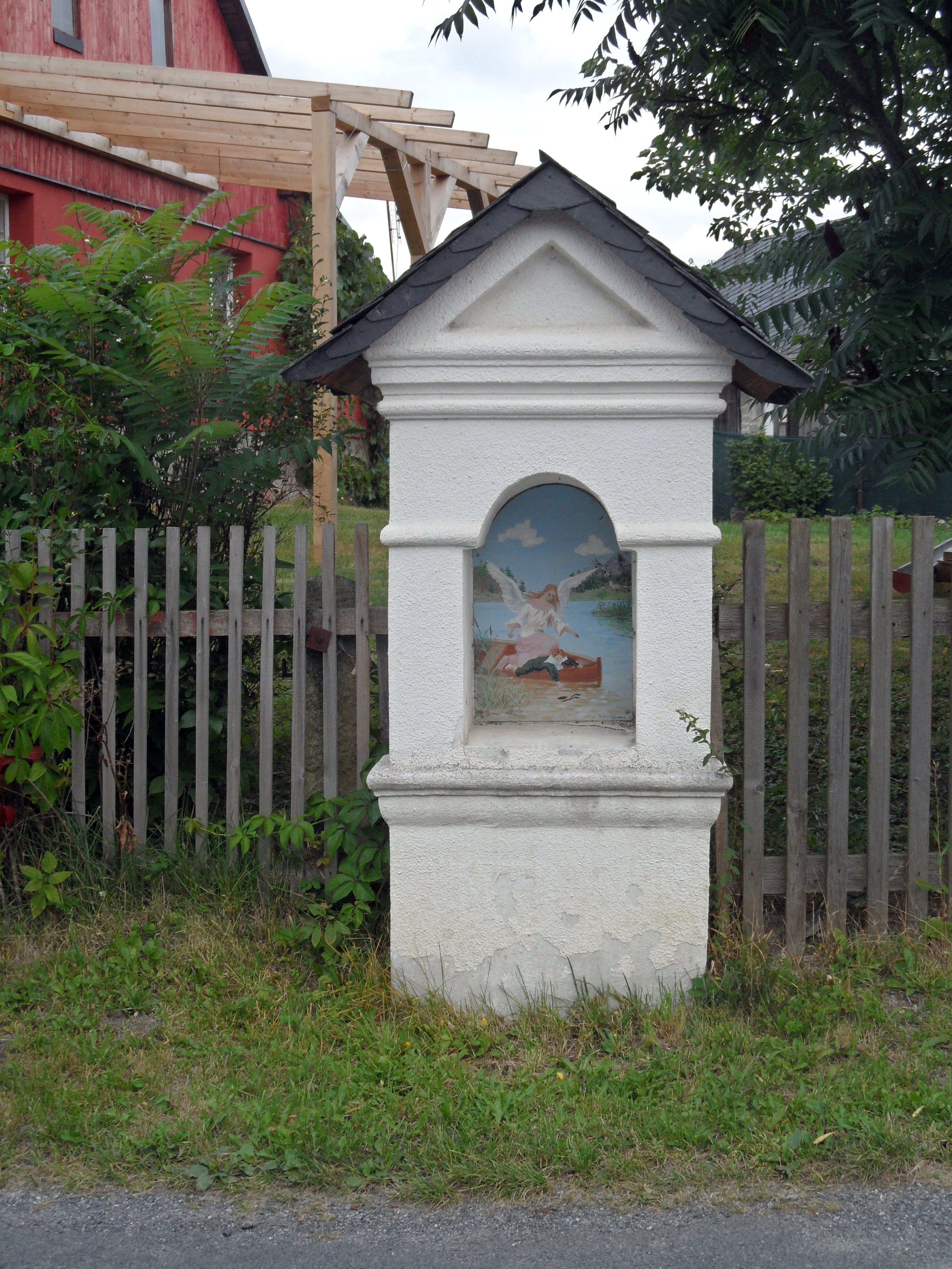 Nová Červená Voda: Calvary in the Centre. Jeseník District, the Czech Republic.